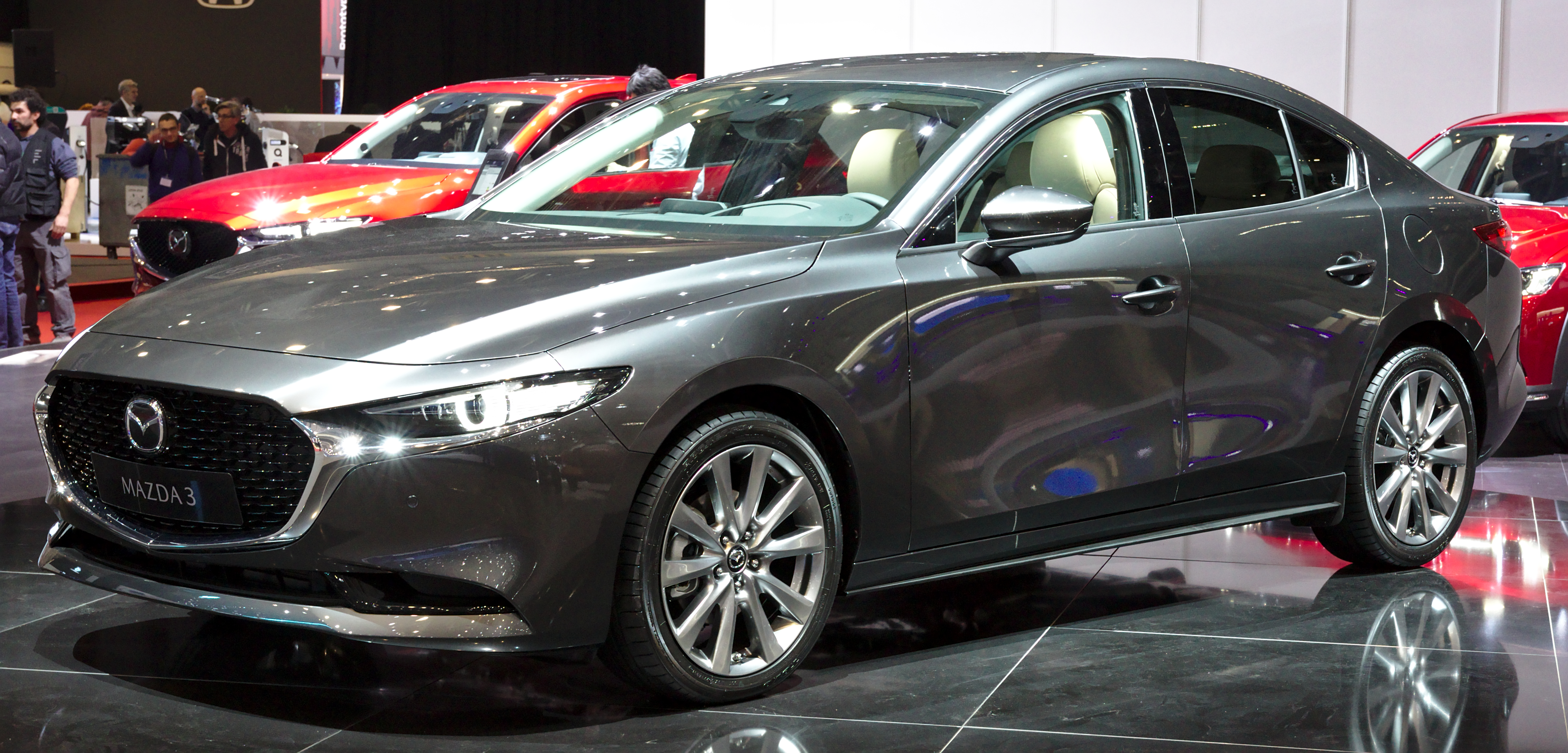 Mazda 3 Sedan at Geneva Motor Show 2019